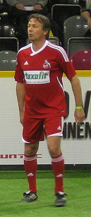 Germany, Bonn, Telekom-Dome: Stephan Engels (former german Bundesliga professional soccer player) during a tournament as player of the 1. FC Köln-traditional team.